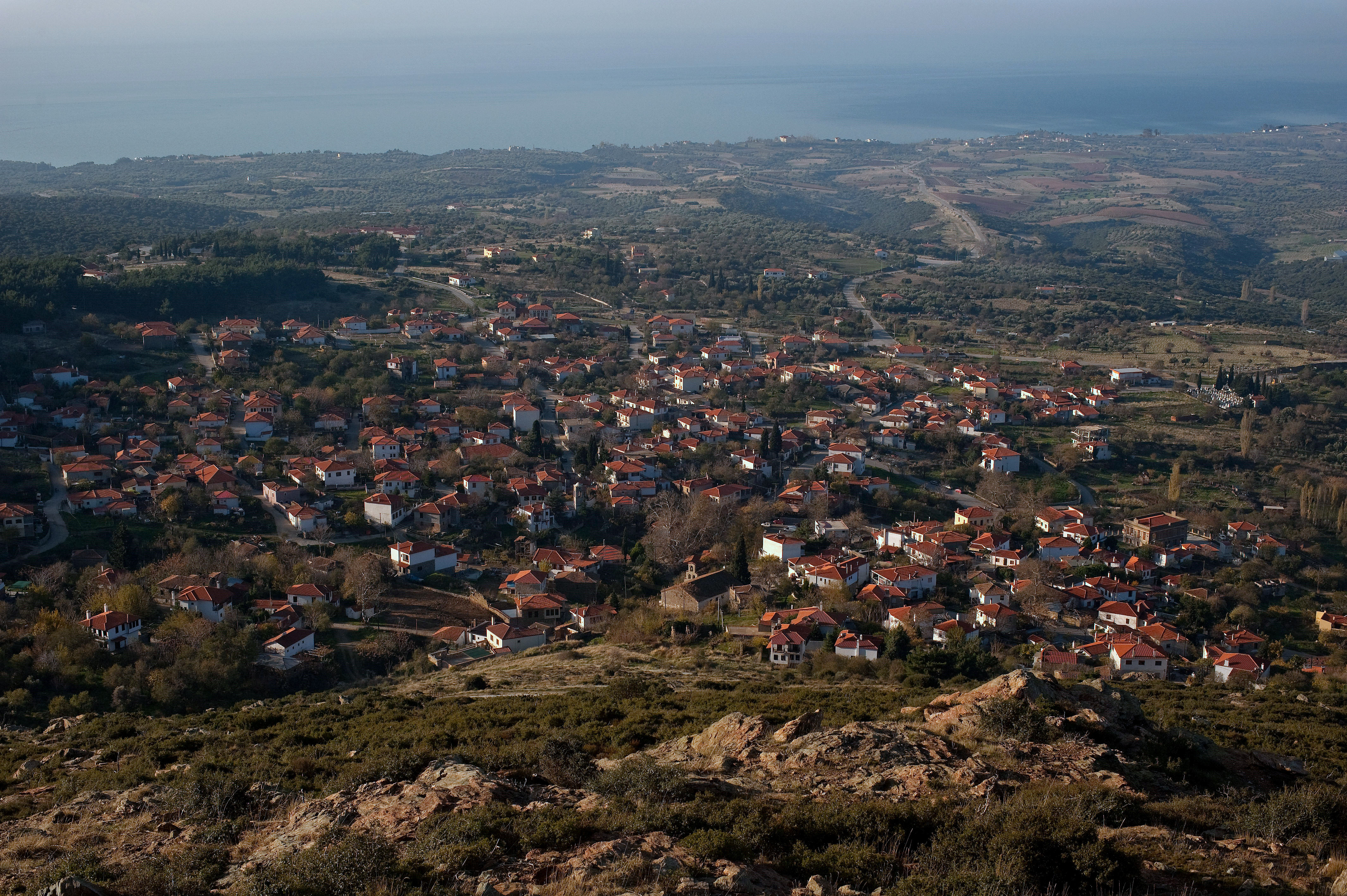 Panoramic view of the village Maronia, Rhodope, Greece.